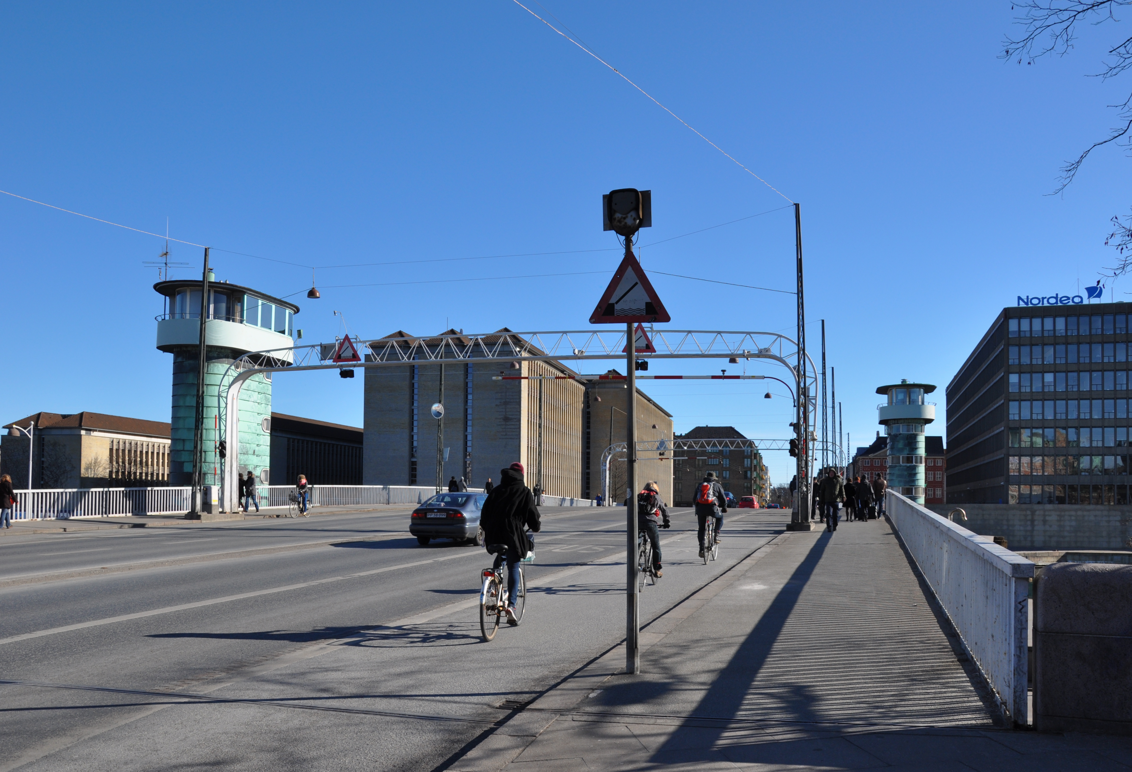 The bridge Knippelsbro in Copenhagen